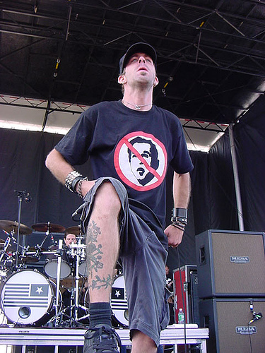 Randy Blythe of Lamb of God at Ozzfest, Jones Beach, New York July 14, 2004 [1]